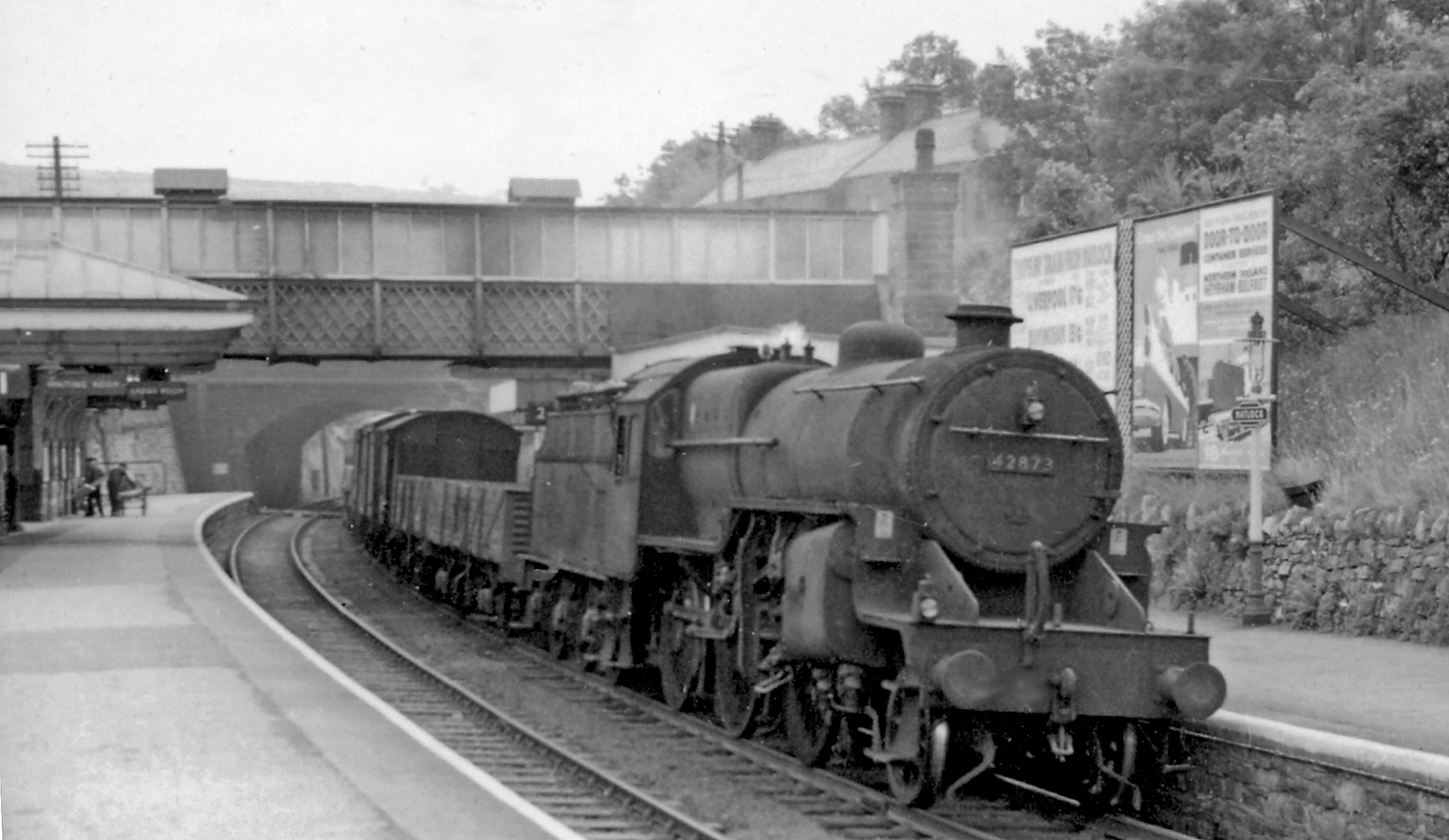 Down freight at Matlock Station. View SE, towards Derby: ex-Midland Derby - Manchester ('Peak') main line. The Class D freight is headed by Hughes/Fowler 5P4F 2-6-0 No. 42873 (built 1930 as No. 13173, withdrawn 9/62).